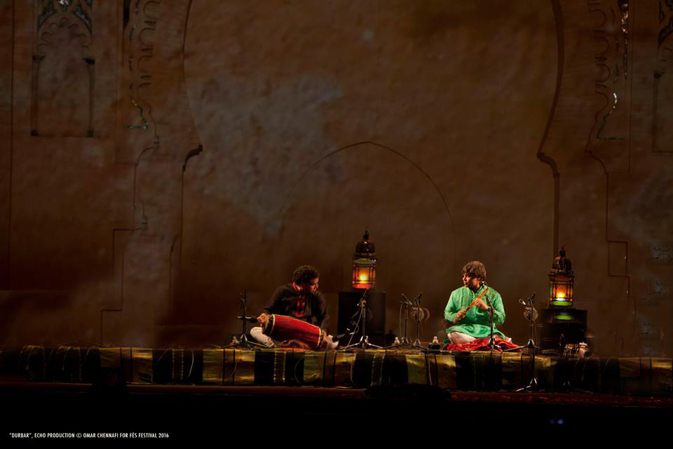 Shashank at Fes Festival Morocco in 2016